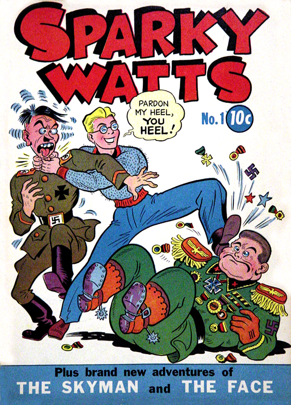 The first issue of Sparky Watts by Boody Rogers published by Columbia Comics (April 29, 1940)